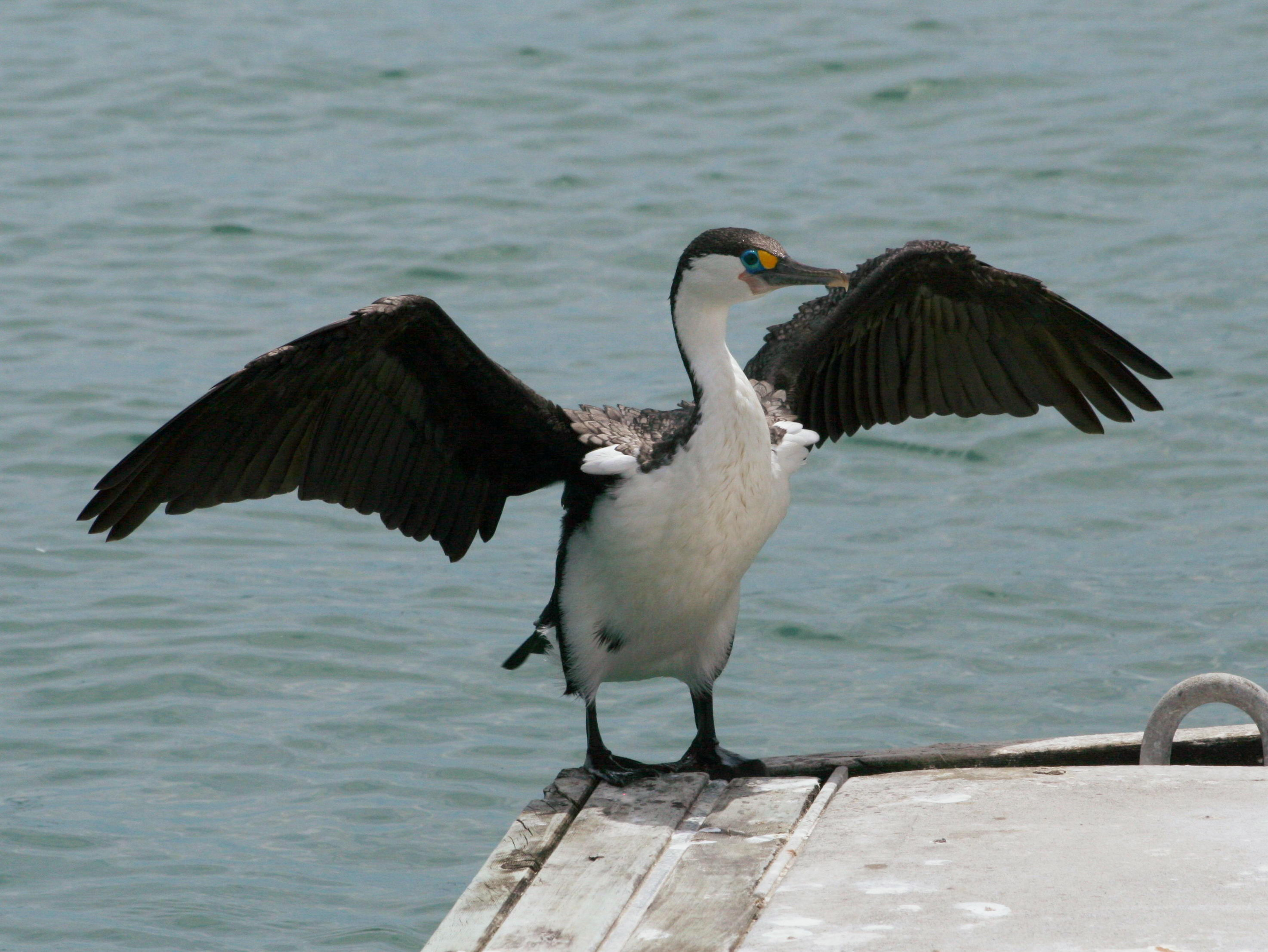 Pied Cormorant (Phalacrocorax varius), also known as Australian Pied Cormorant - Auckland, New Zealand